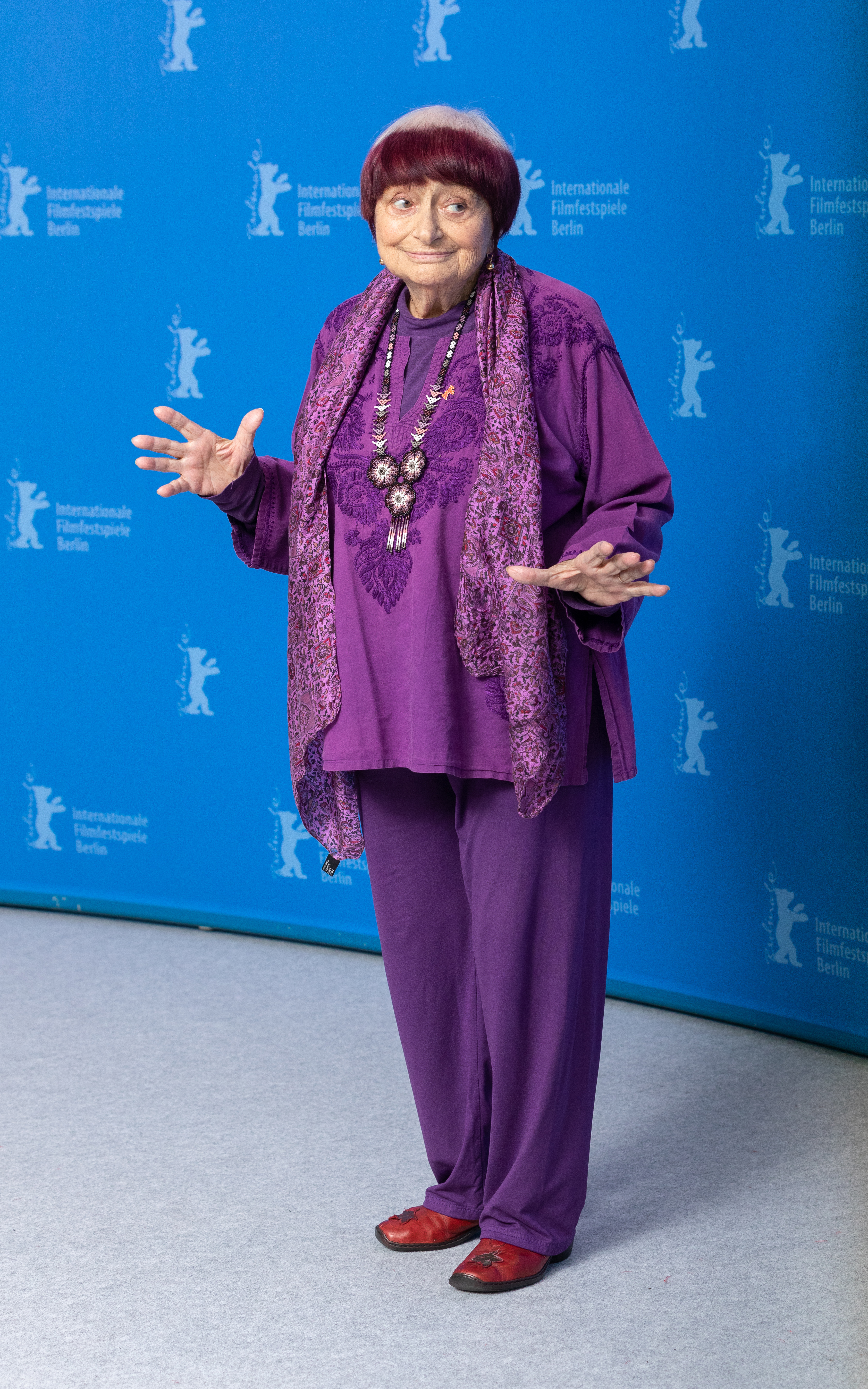 Director Agnès Varda at the Berlinale 2019